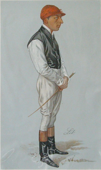 Caricature of Frederic E Webb (1853-1917). Caption read "Fred Webb". Biography